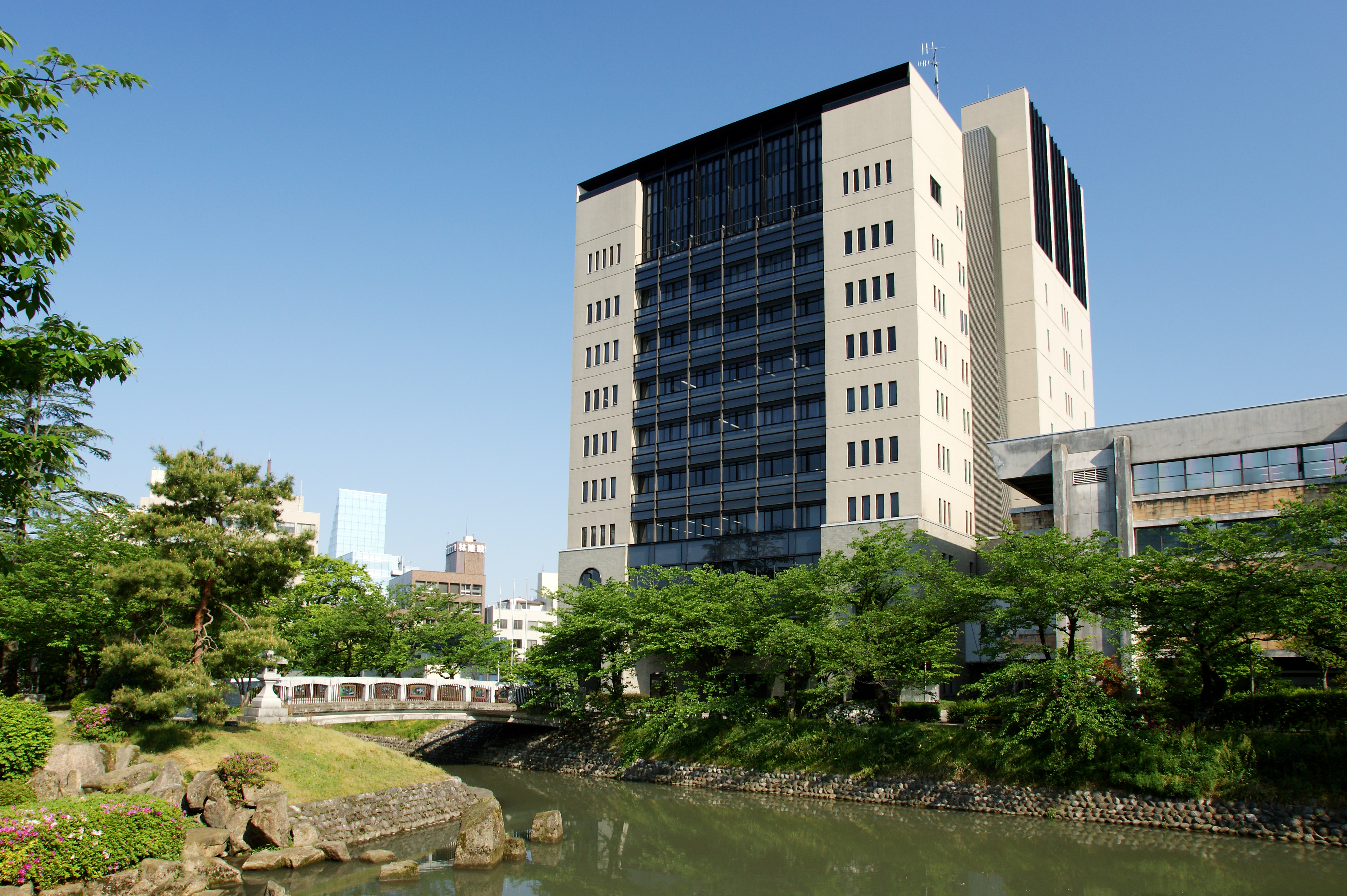 Toyama Prefectural Police Headquarters in Toyama, Toyama prefecture, Japan